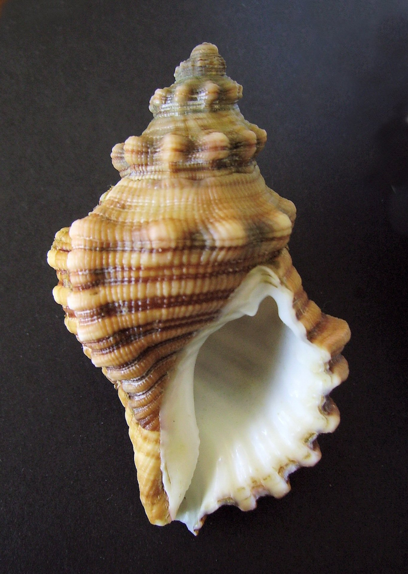 Cabestana spengleri (underside view), from the Whangaparaoa Peninsula, New Zealand. This work has been released into the public domain by its author, Graham Bould. This applies worldwide. In some countries this may not be legally possible; if so: Graham Bould grants anyone the right to use this work for any purpose, without any conditions, unless such conditions are required by law. .